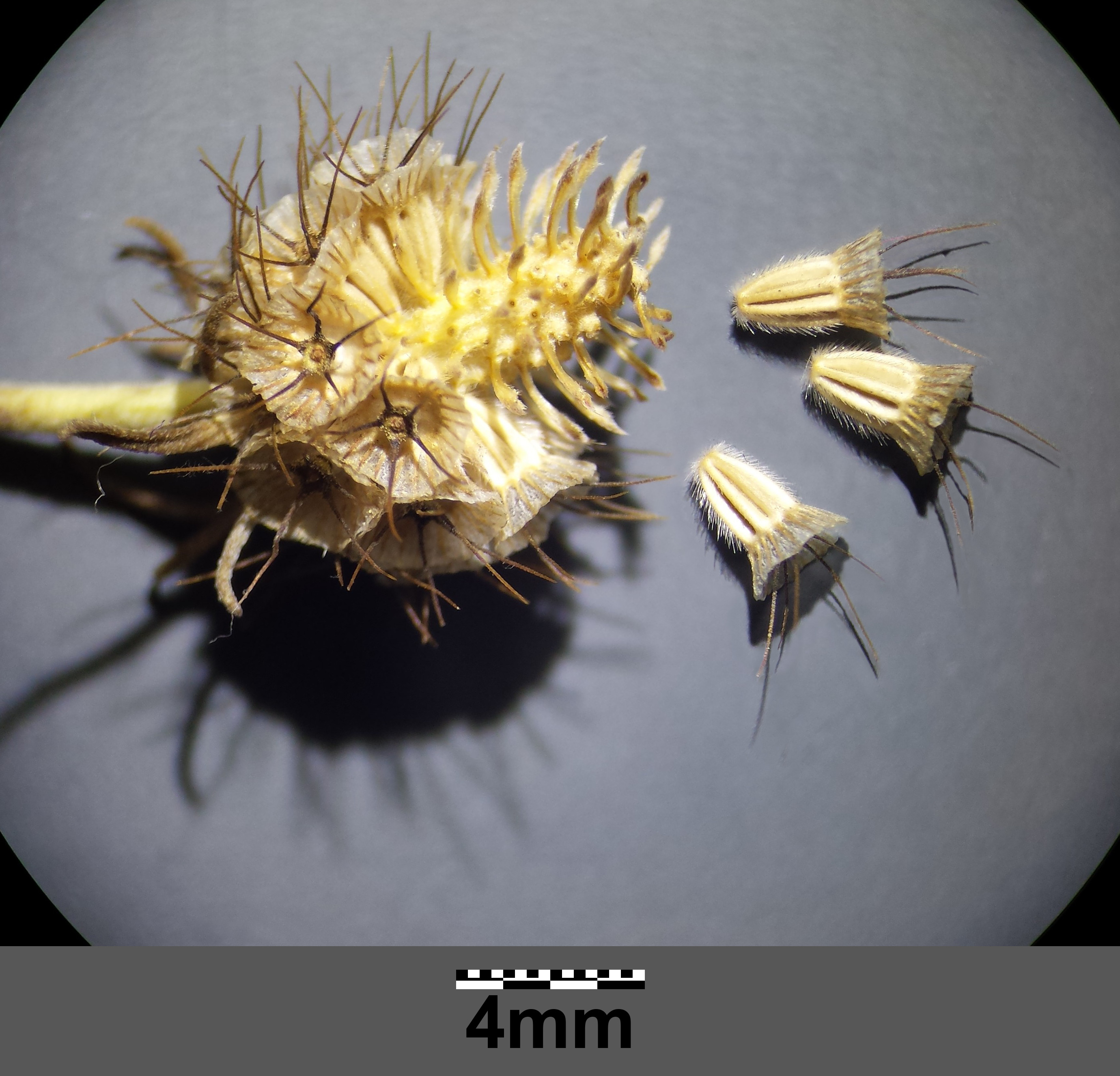 Infructescence (capitulum) Taxonym: Scabiosa ochroleuca ss Fischer et al. EfÖLS 2008 ISBN 978-3-85474-187-9 Location: near Niederhollabrunn, district Korneuburg, Lower Austria - ca. 350 m a.s.l. Habitat: semi-dry grassland